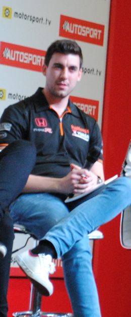 Daniel Cammish, who was in contention for the 2019 BTCC champion title, at 2020 Autosport International Show.